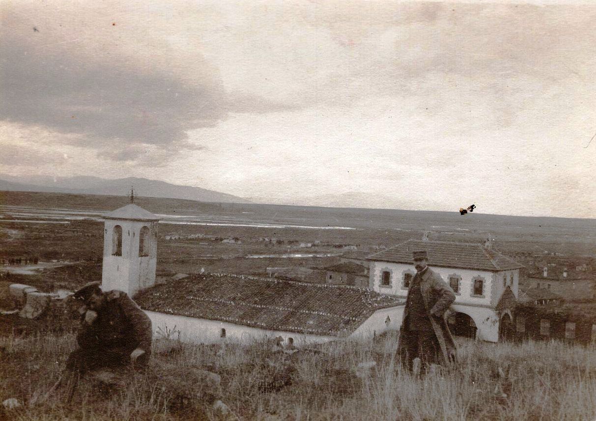 Village Hasan Oba (Hasanovo) photographed around 1916 This media file is produced by Wikipedian in Residence in Category:Wikipedian in Residence at DARM in 2016.